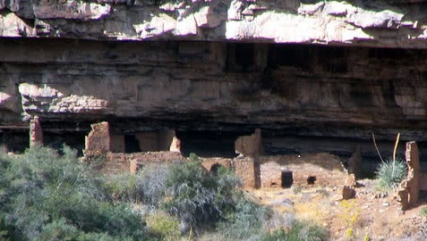 Cliff Dwellings in the Sierra Ancha Wilderness of central Arizona.